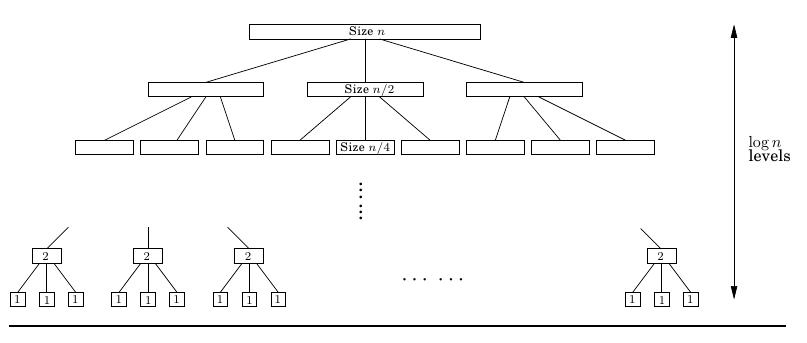 recursion tree in karatsuba algorithm